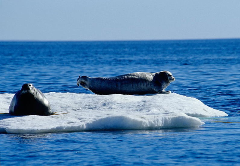 Bearded seal, Erignathus barbatus, on ice flow in Foxe Basin (near Igloolik, Nunavut, Canada)